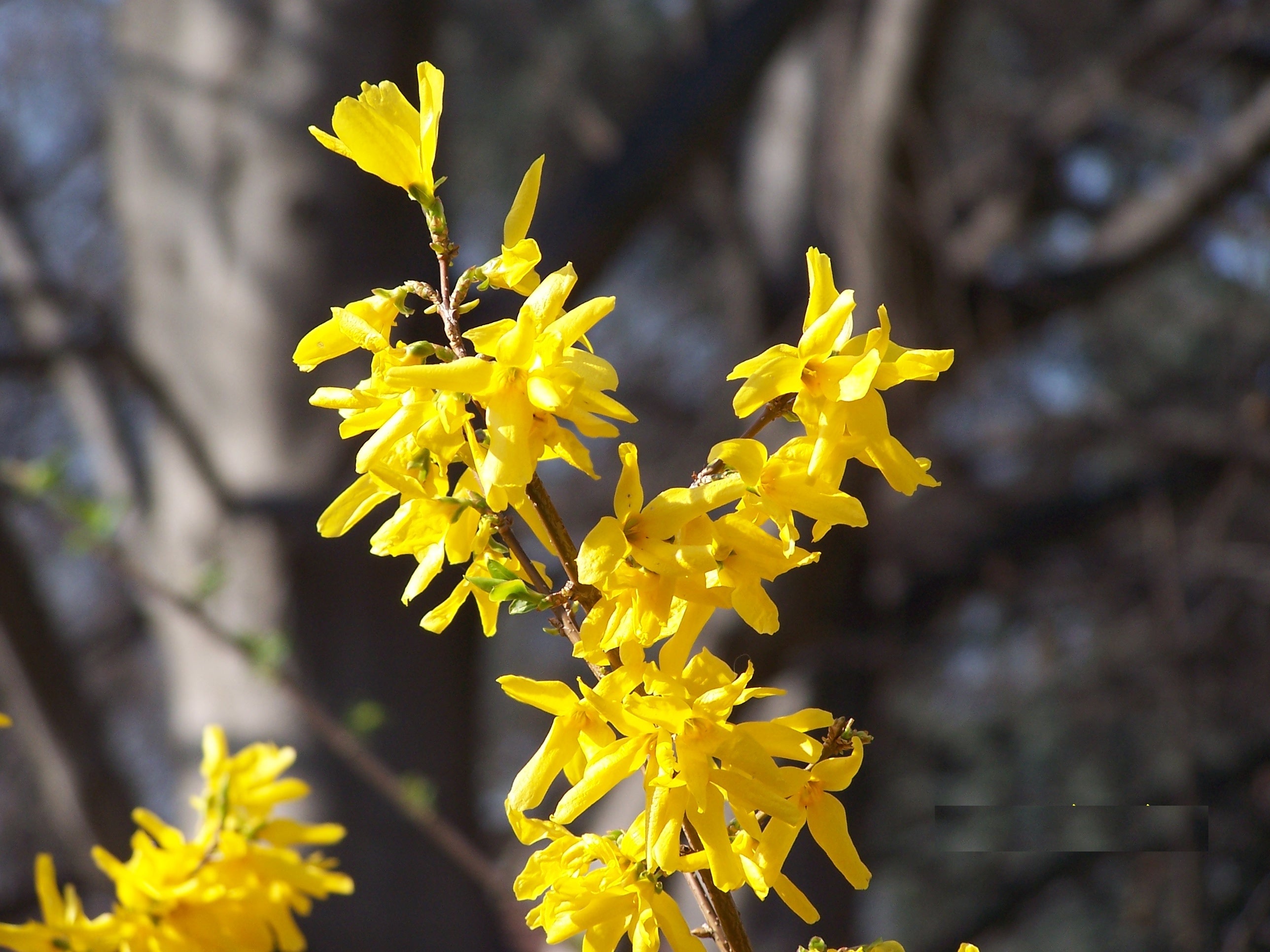 Photo of a forsythia, taken around Turin (Italy). Thanks to GG!